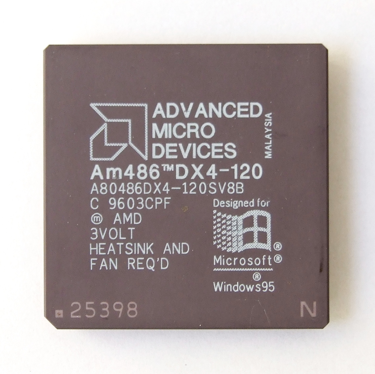 CPU AMD Am486DX4-120